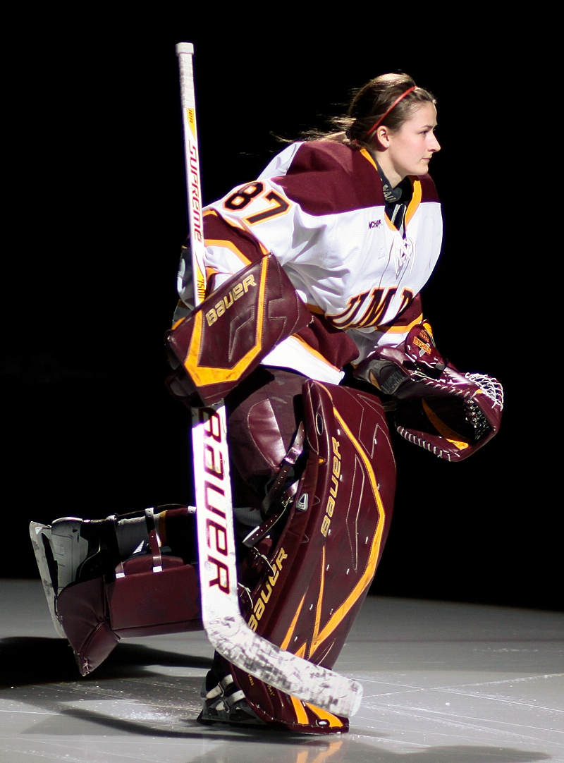 University of Minnesota Duluth Bulldogs goaltender Jennifer Harss